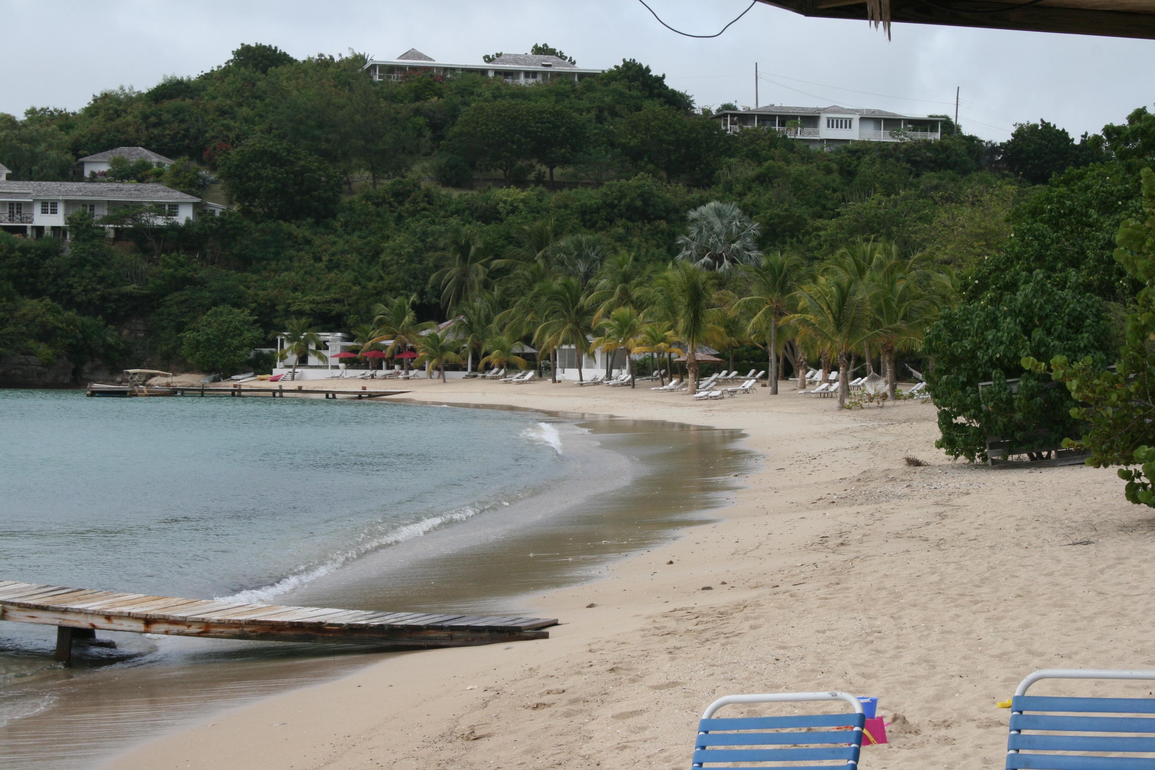 Beach taken in Antigua